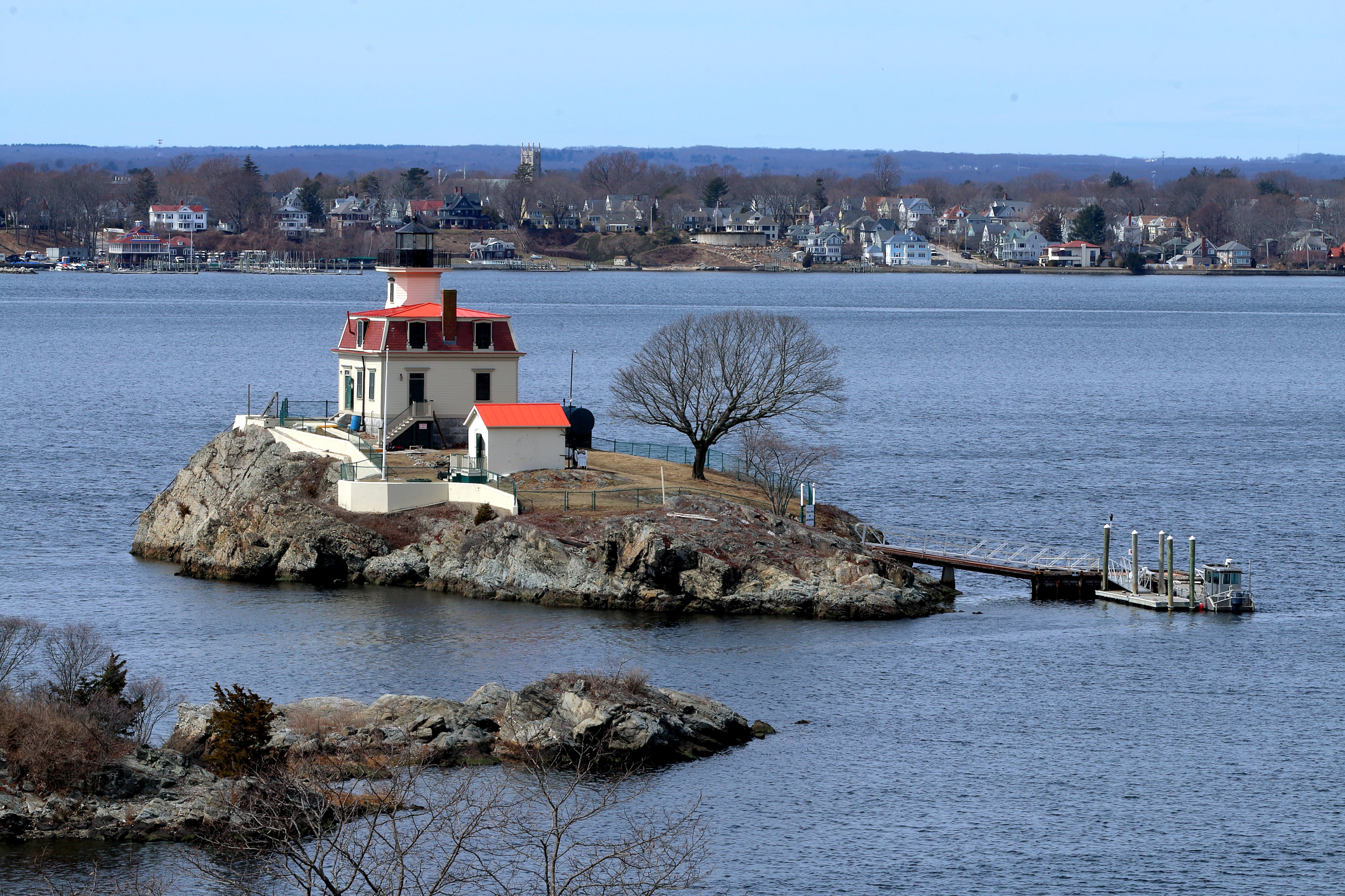 I captured this image of Pomham Rocks Lighthouse on March 23, 2018